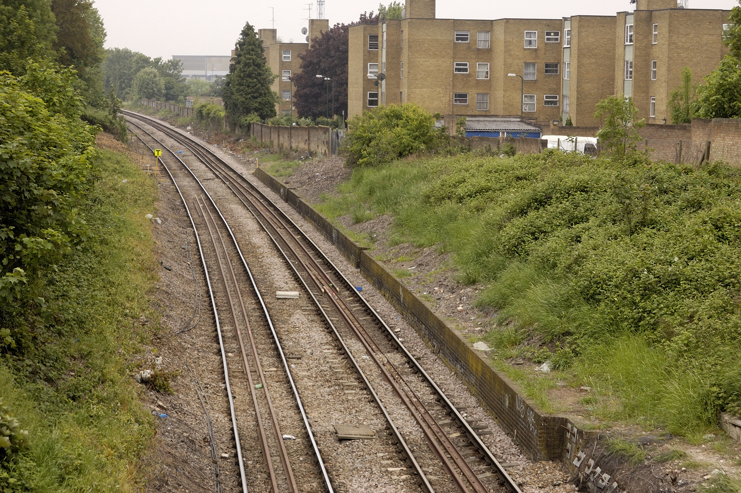 The Platform remains of the station at Harlesden on the Dudding Hill line. This is on the Craven Park section of Harrow Road, London NW10